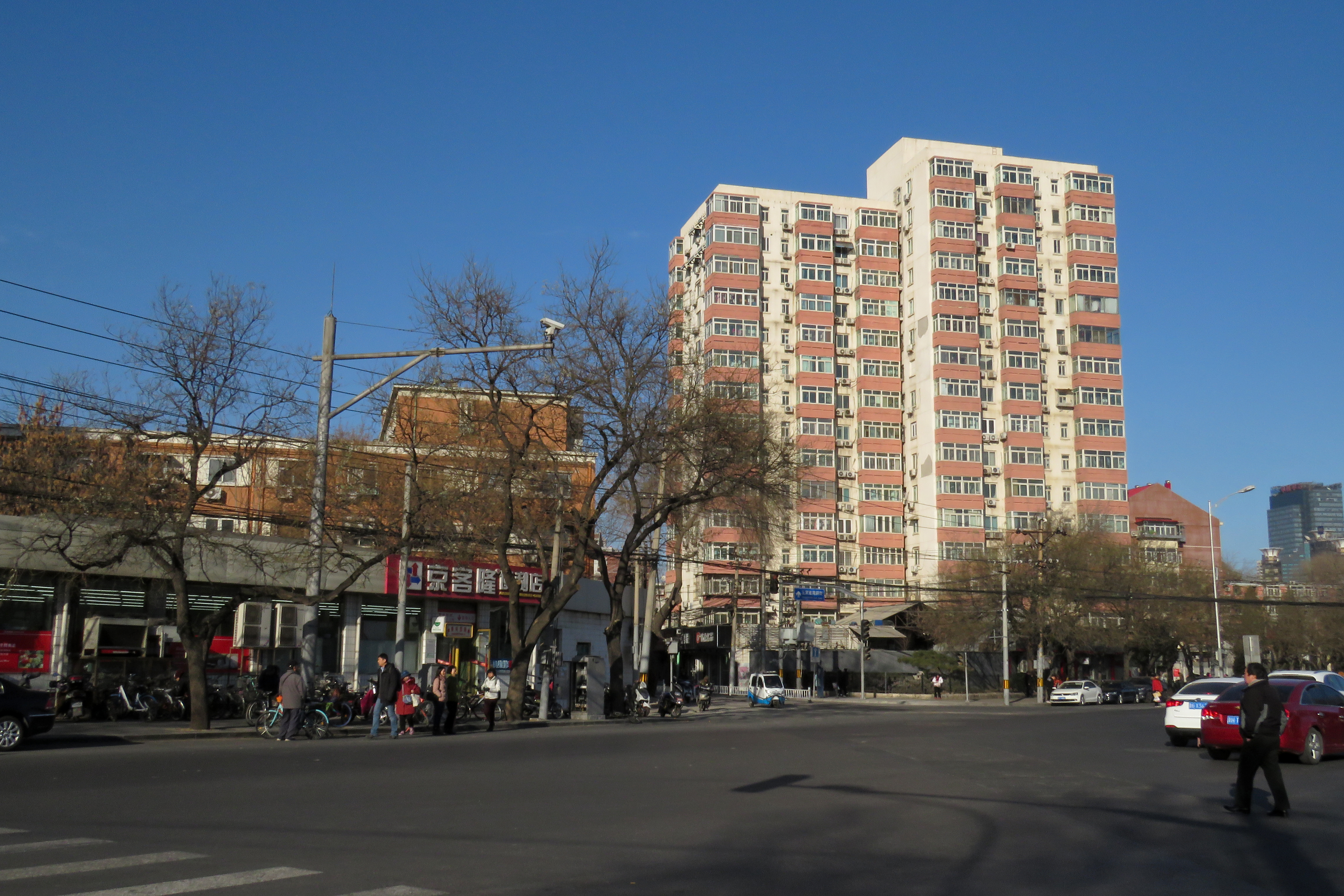 Yes, a chicken before spotting...